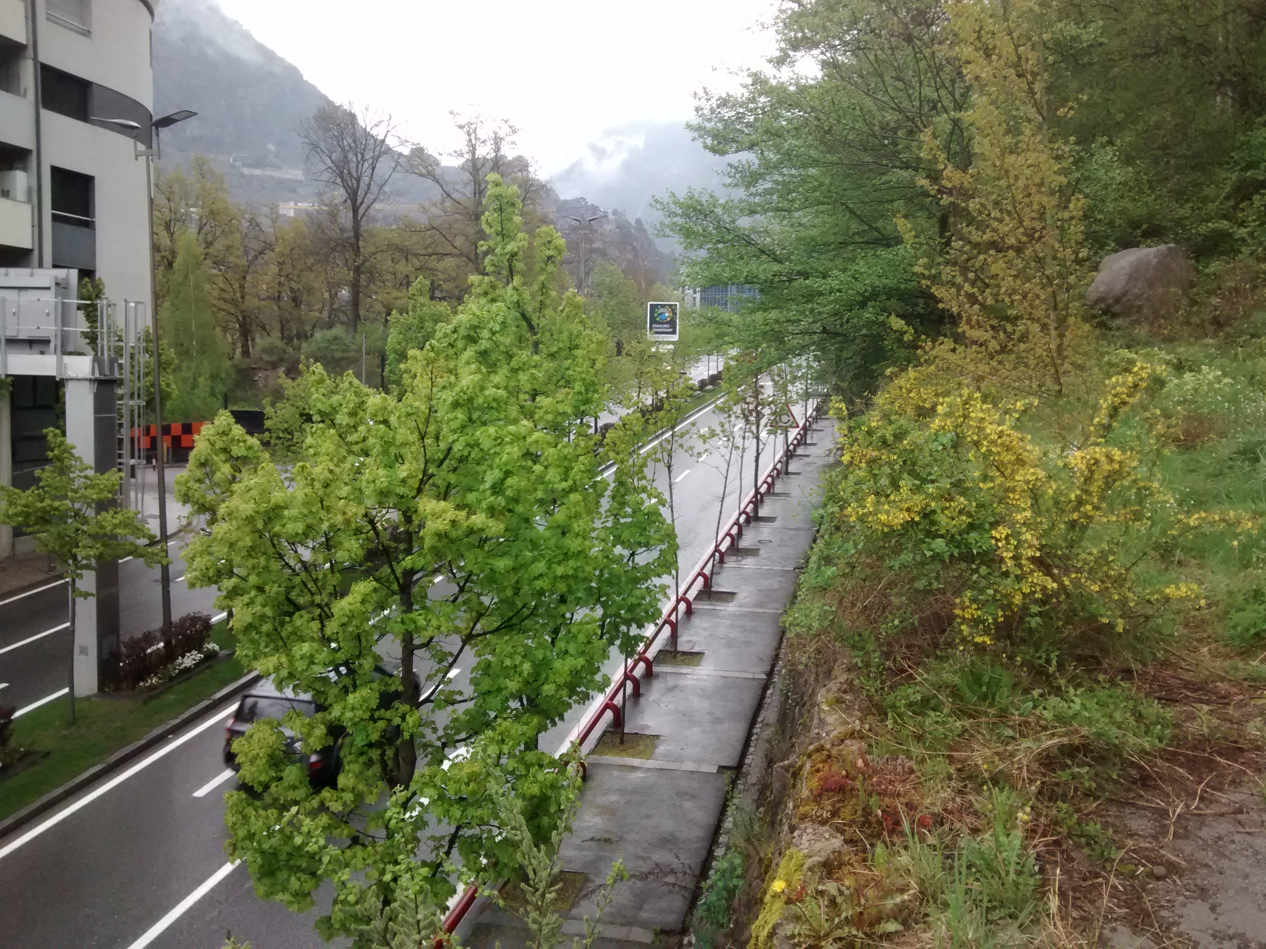 CG-2, a major road in Andorra, near the roundabout where it becomes CG-1.